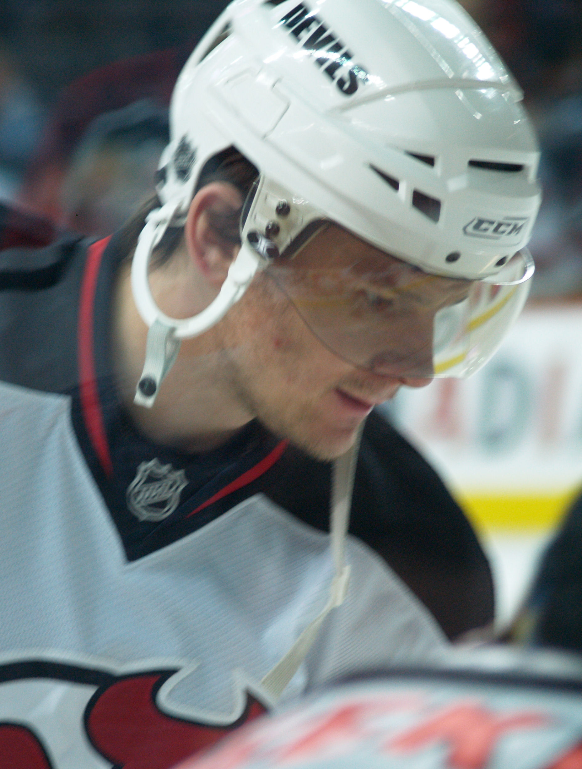 Patrik Elias of the New Jersey Devils in the pregame warmup in Calgary